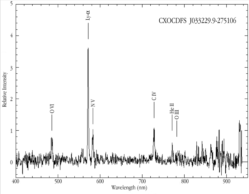 The (continuum-subtracted) optical spectrum of the distant Type II Quasar CXOCDFS J033229.9 -275106 in the Chandra Deep Field South (CDFS), obtained with the FORS1 multi-mode instrument at VLT ANTU. Strong, redshifted emission lines of Hydrogen and ionised Helium, Oxygen, Nitrogen and Carbon are marked.